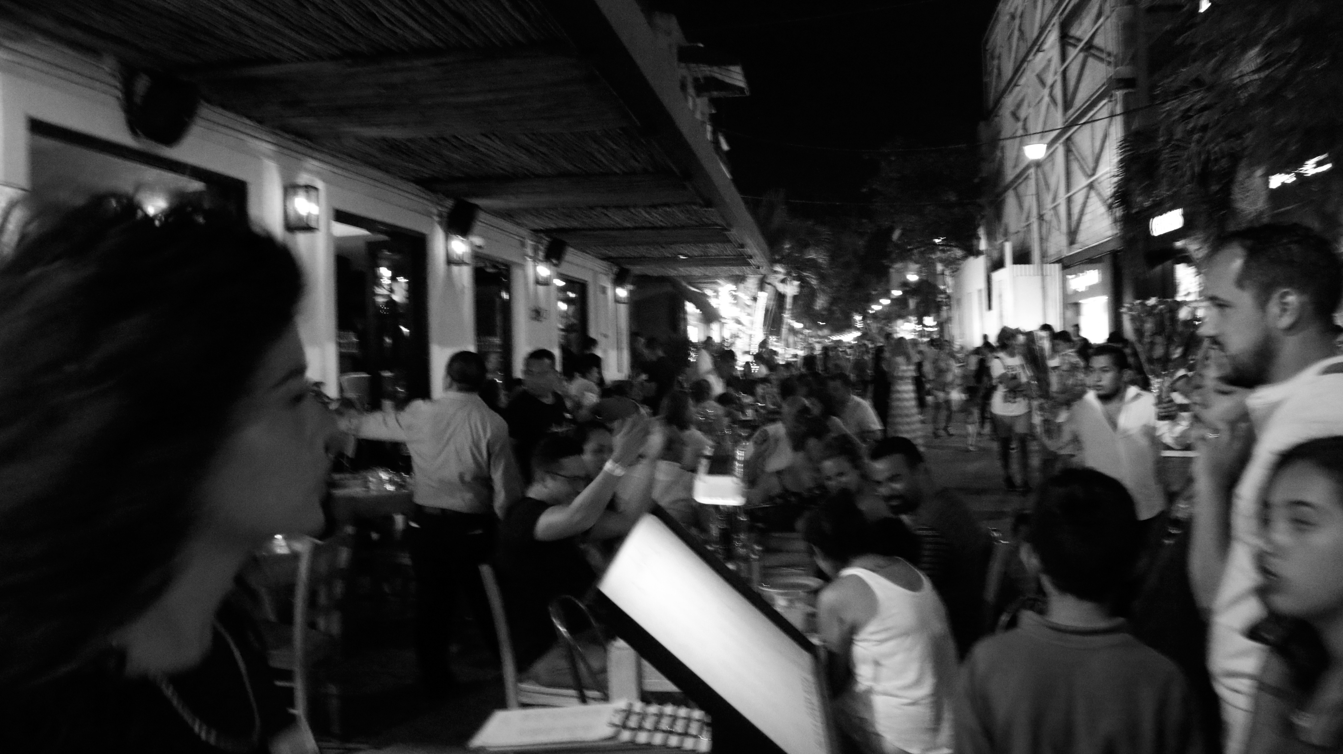 One night at la #QuintaAvenida Playa del Carmen